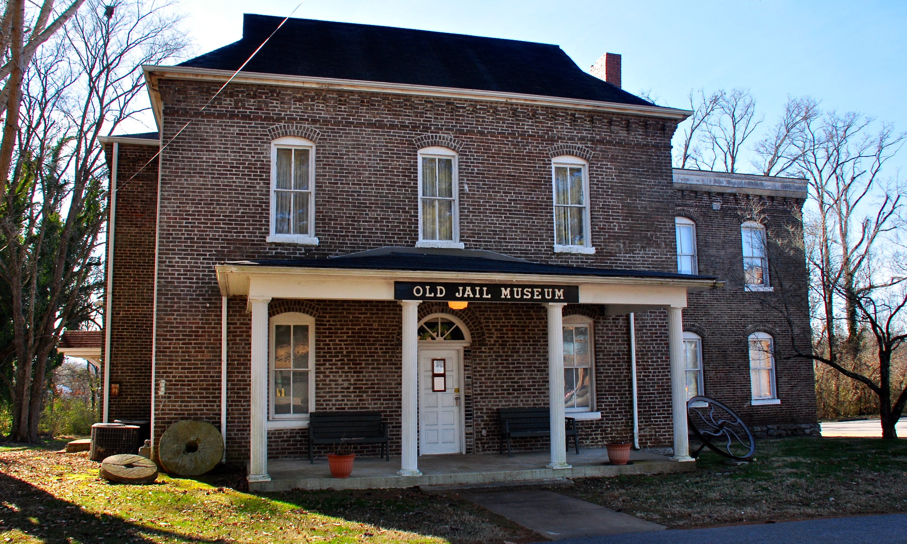 Lawrence County Jail, Waterloo St. Lawrenceburg